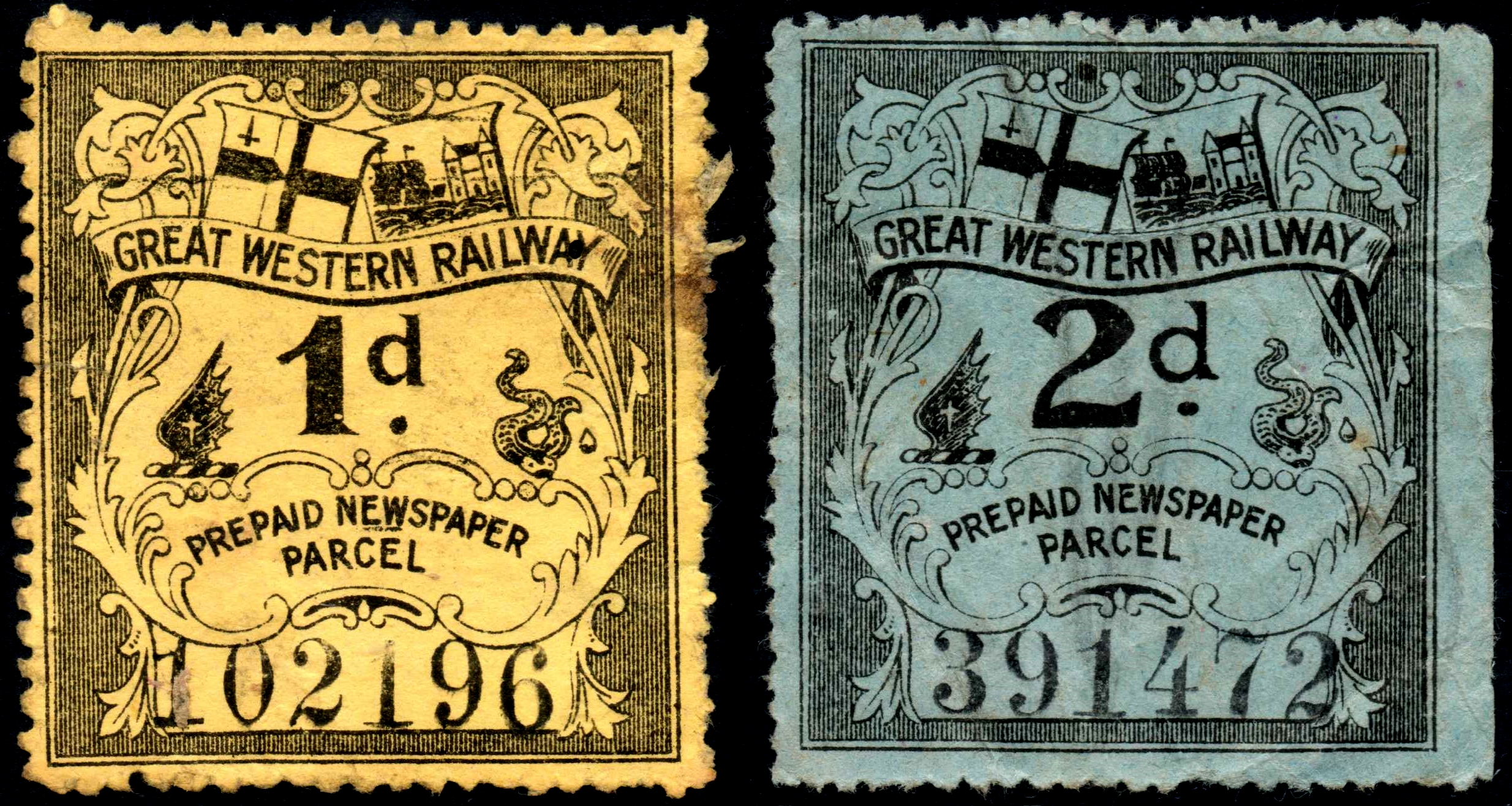 Prepaid newspaper parcel stamps of the Great Western Railway, 1 penny and 2 pence.